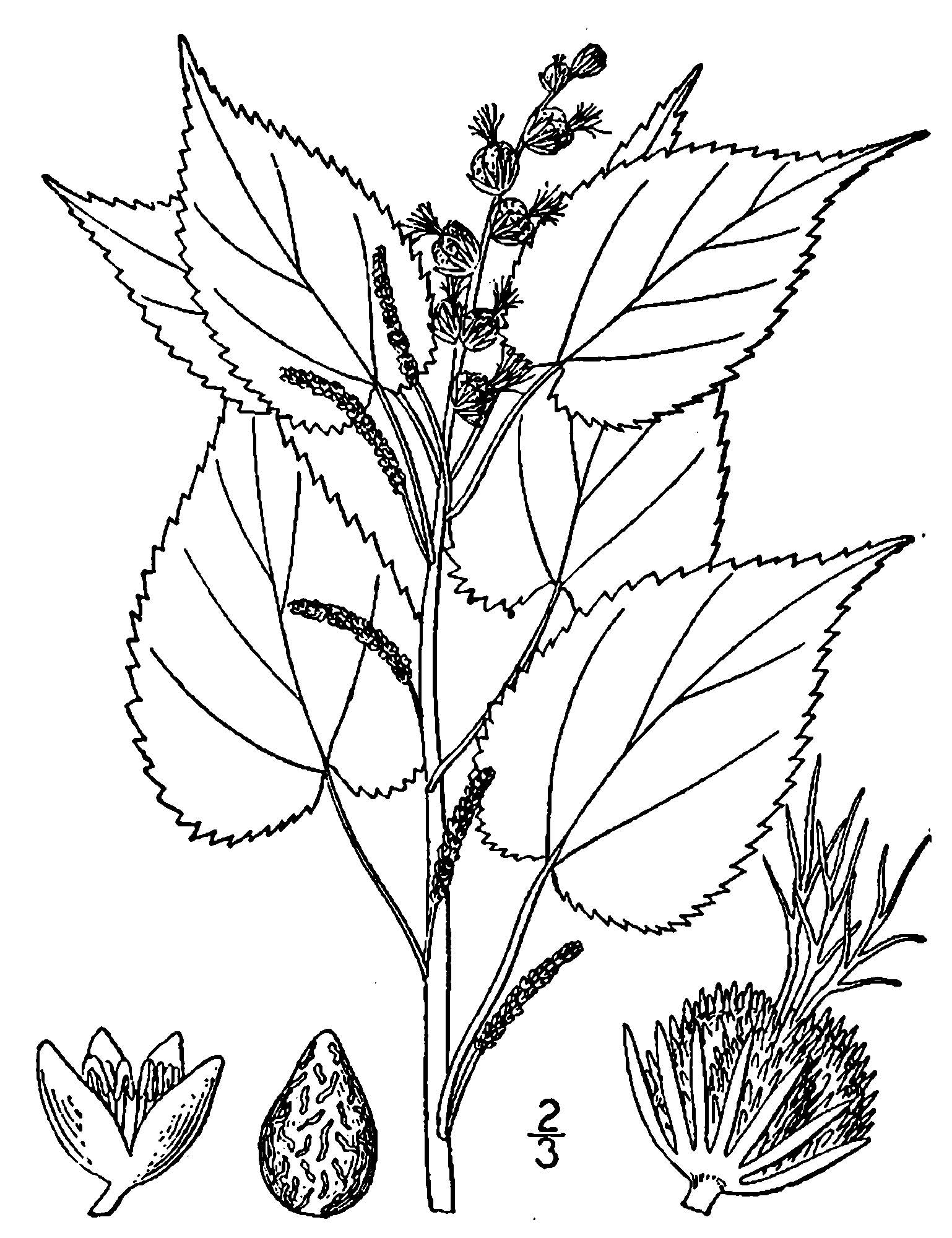 Pineland Threeseed Mercury. Drawing.